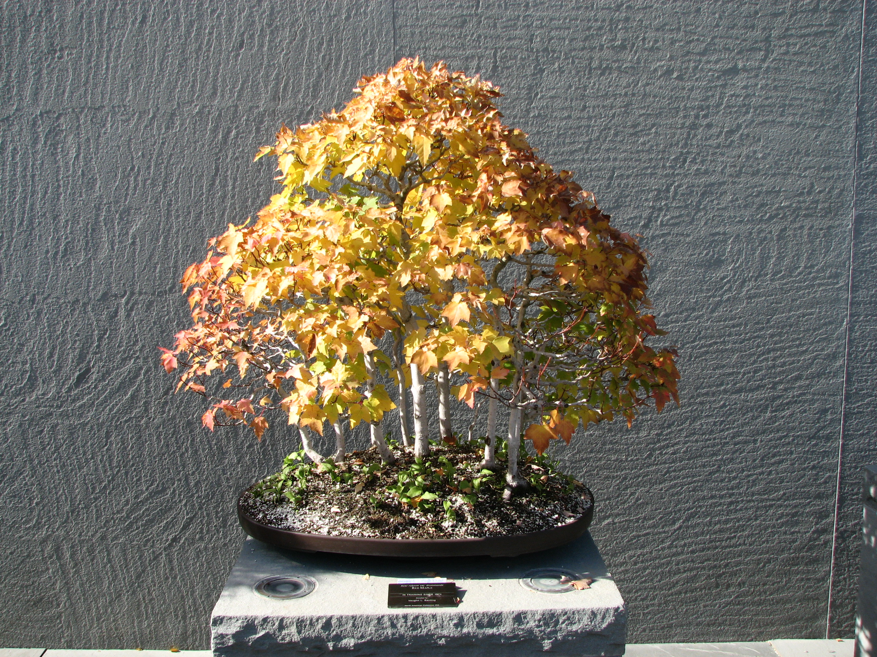 United States National Arboretum (National Bonsai & Penjing Museum), Washington DC